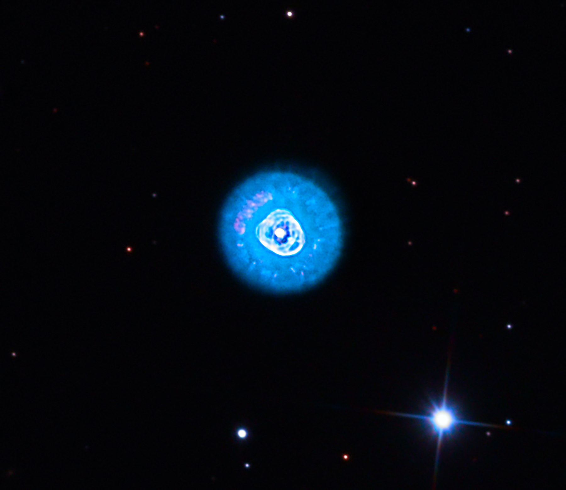 NGC 2392, Eskimo Nebula